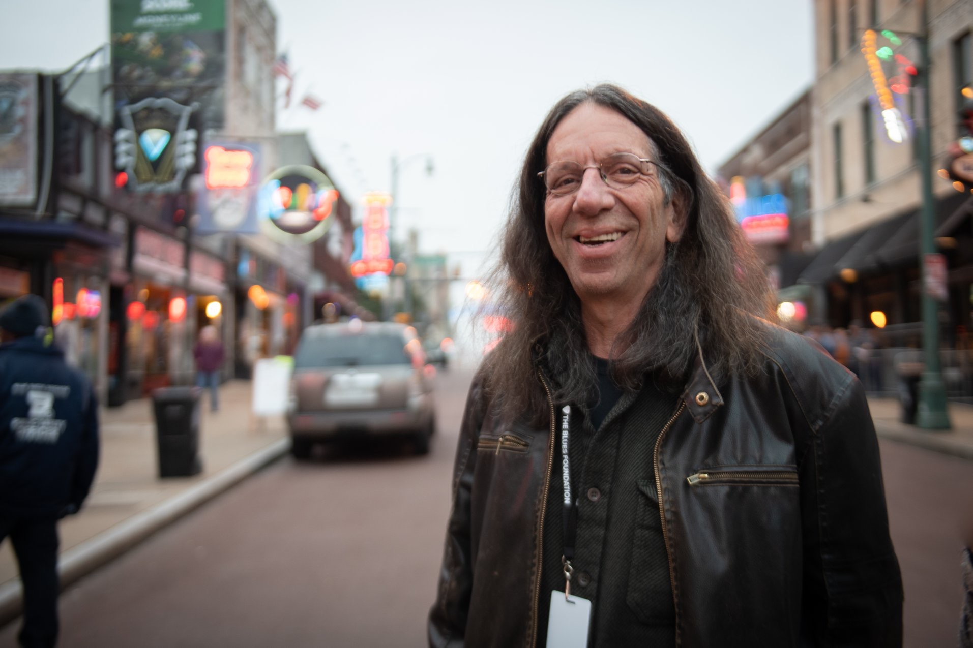 Bruce Katz was a judge and participant at the IBC awards in Memphis in January, 2020